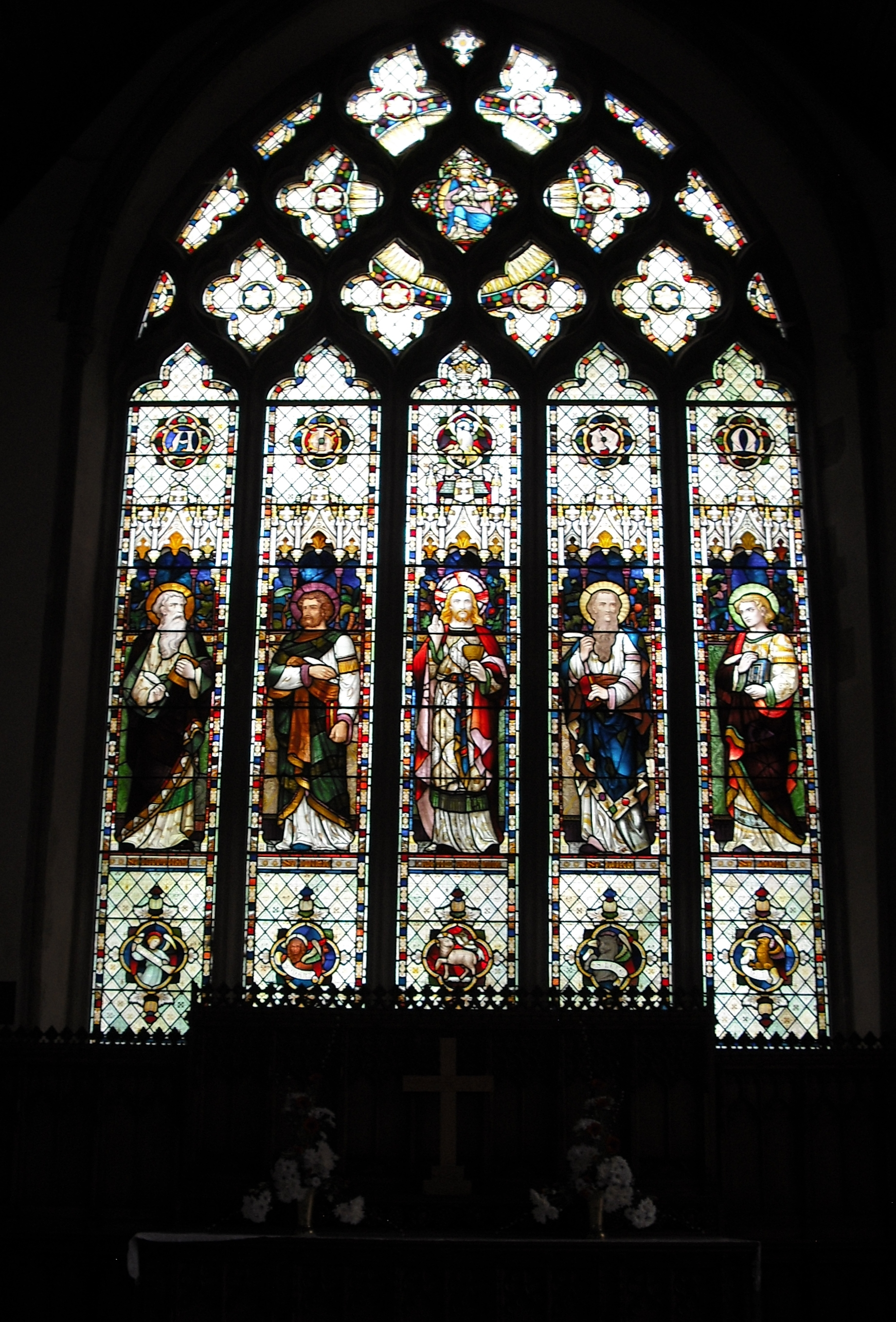 File:St Peter and St Mary's church, Stowmarket, Suffolk - south east window